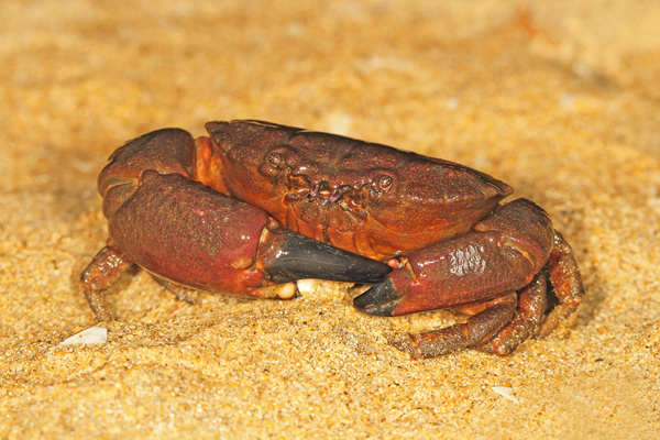 Devbagh, Karwar, India